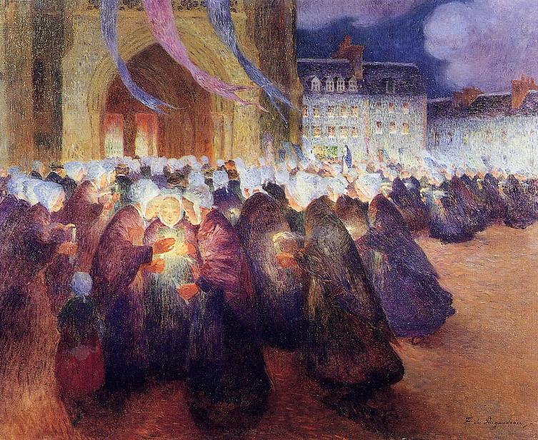 Oil painting reproduction of Ferdinand du Puigaudeau.